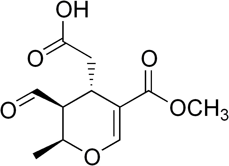 chemical structure of elenolic acid